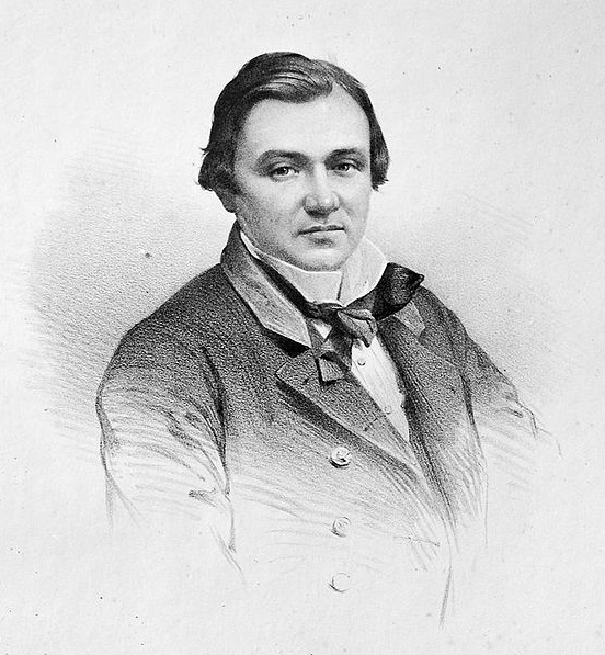 Edmund Moubray Lyons (27 October 1819 - 23 June 1855)